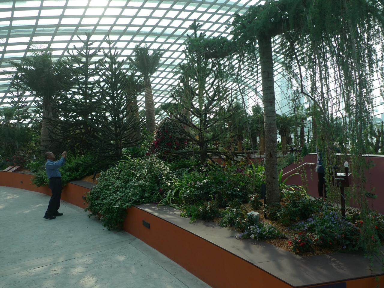 Inside the Flower Dome of Gardens by the Bay, Singapore.